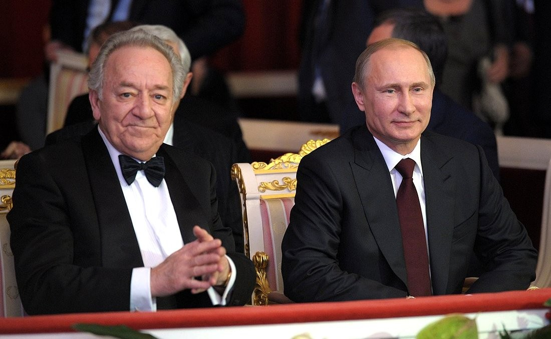 Yuri Temirkanov with Vladimir Putin. Saint Petersburg. Dec 14, 2013.